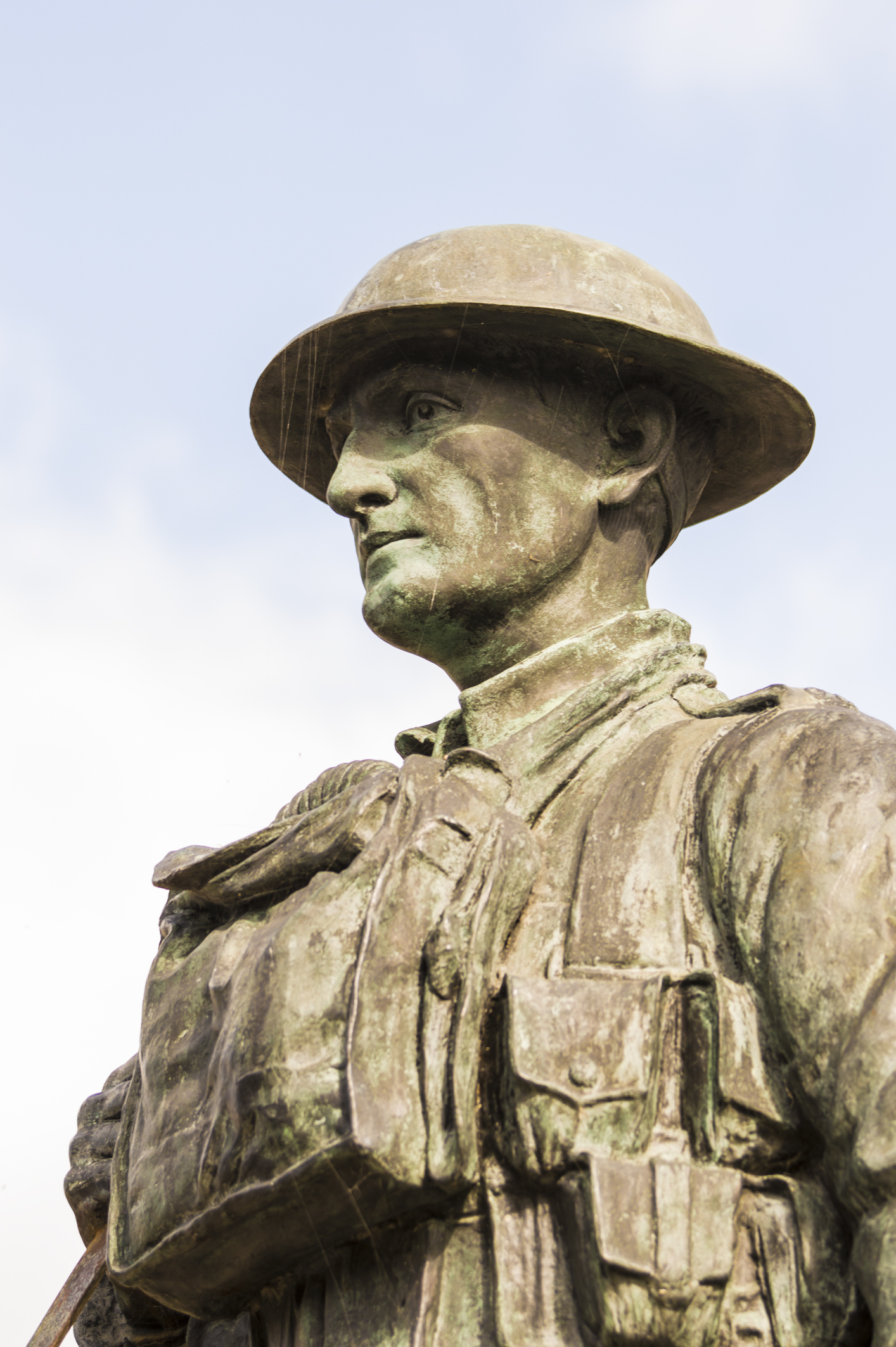 Detail of bronze statue of Charlie Robbins, Frome Servicemen Memorial, Frome, Somerset; cast by Singer & Sons, 1922